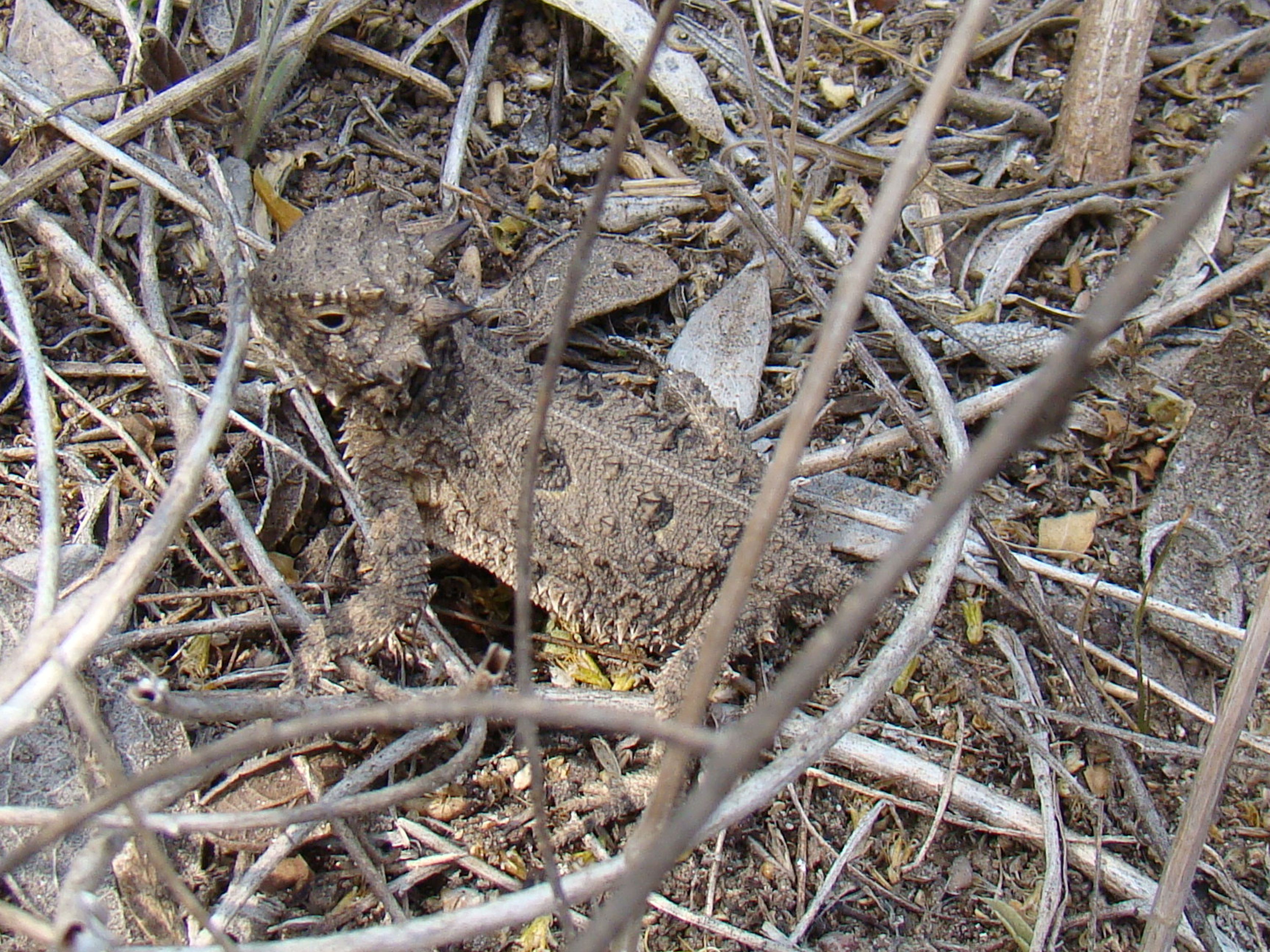 Texas horned lizard in Beeville